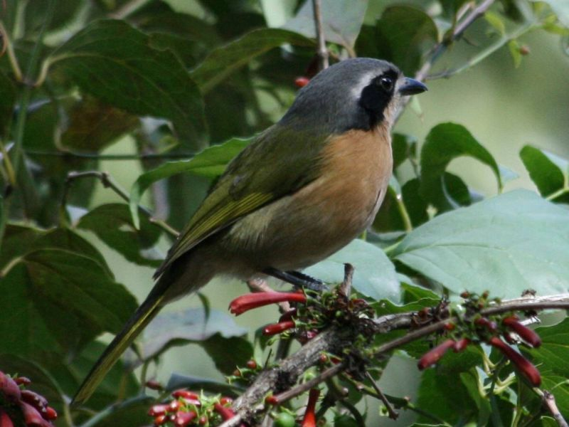 Olive Bushshrike Chlorophoneus olivaceus (syn. Telophorus olivaceus). Location: Queen Elizabeth Park, Pietermaritzburg, South Africa.